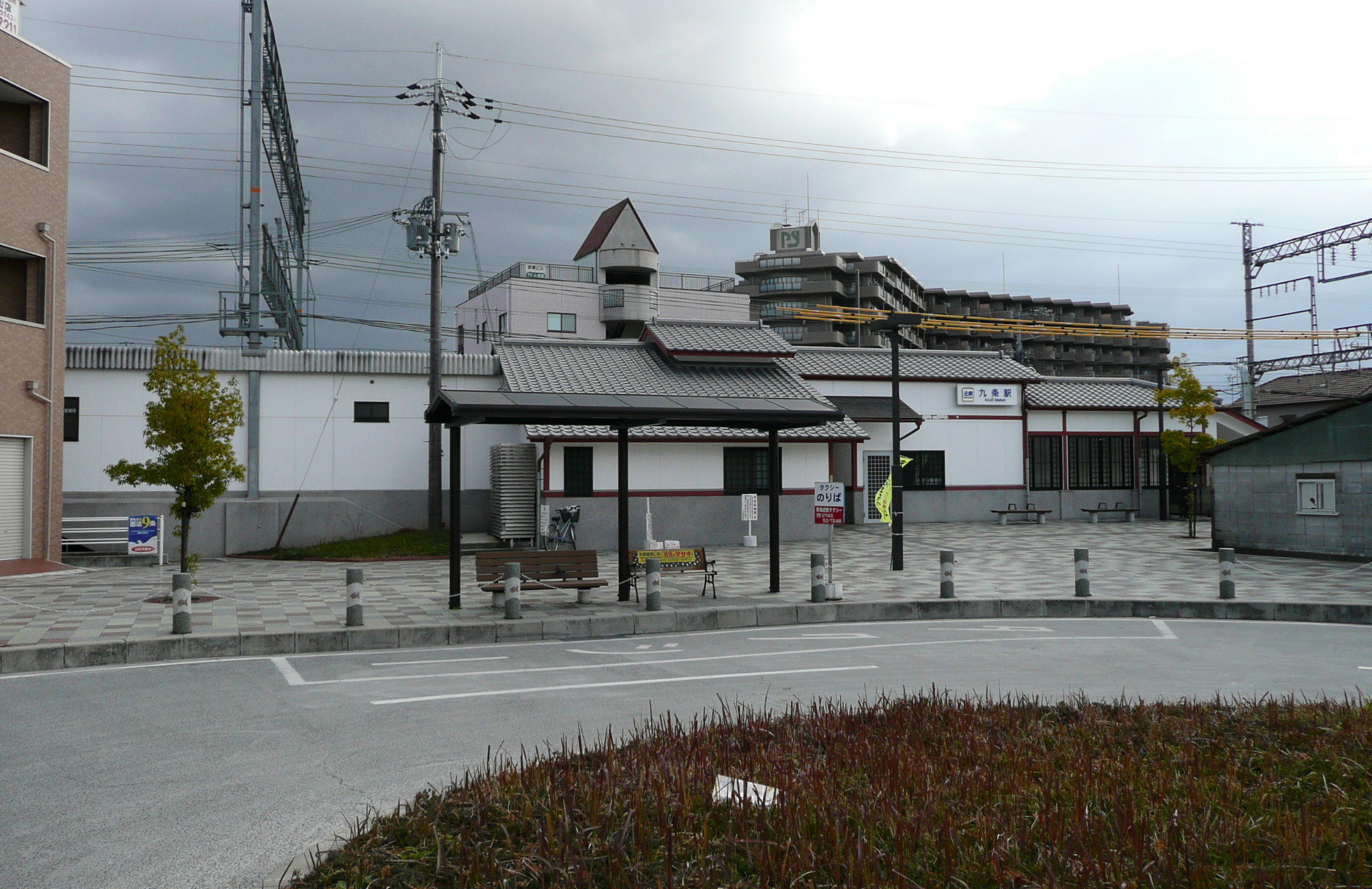 Kinki Nippon Railway,Kashihara Line,Kujo Station west entrance. / 近鉄橿原線九条駅西口